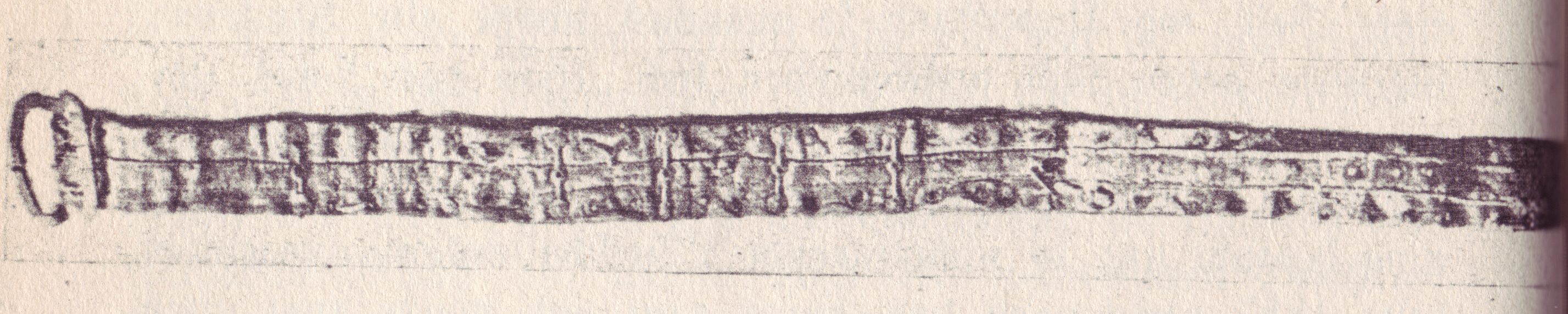 So-called "Belt of Luba" (c. 14th century); ceremonial belt of the fishermen's guild of Lübeck